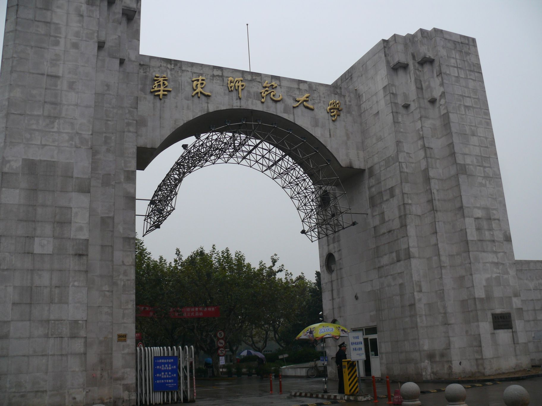 Gate of Putuo campus of East China Normal University (Shanghai, China)